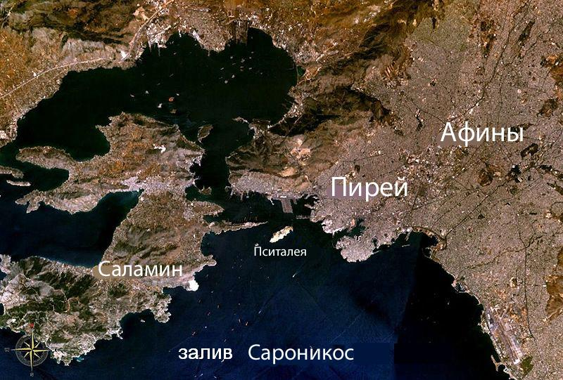 Originally NASA image. I translated data from File:Psyttaleia location.jpg to Russian fot the article Battle of Salamis